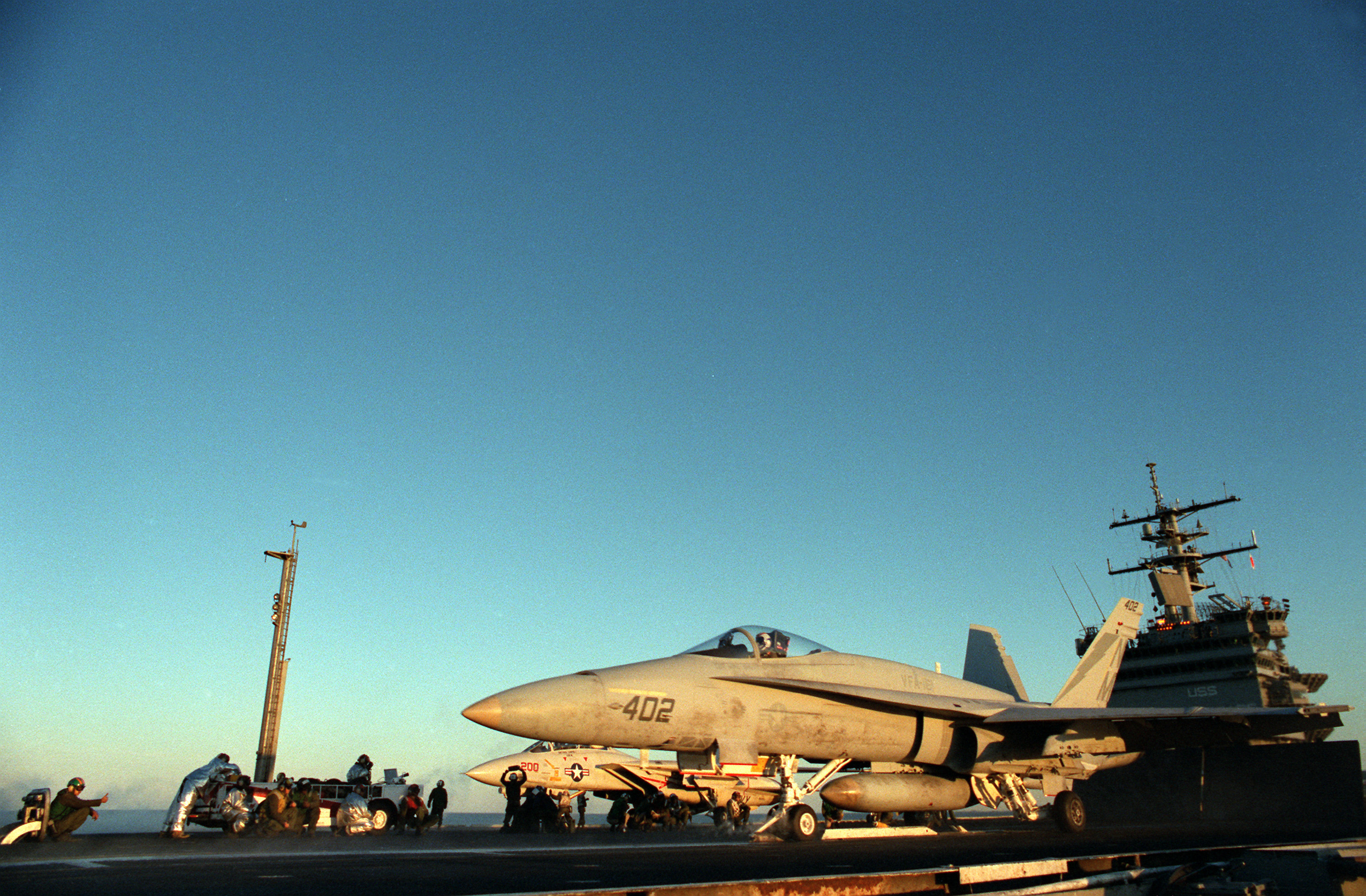 A U.S. Navy McDonnell Douglas F/A-18A Hornet from Strike Fighter Squadron VFA-161 Chargers about to launch from the flight deck of the aircraft carrier USS Enterprise (CVN-65) on 1 July 1987. The carrier was en route to the Sea Fair Festival in Seattle, Washington (USA). VFA-161 was assigned to the short-lived Carrier Air Wing 10 (CVW-10, tail code "NM"). It was established in November 1986 and should have been assigned to the USS Independence (CV-62). However, it was only once deployed on the Enterprise for a short tour along the US Pacific coast and was disestablished again with all squadrons in November 1988.